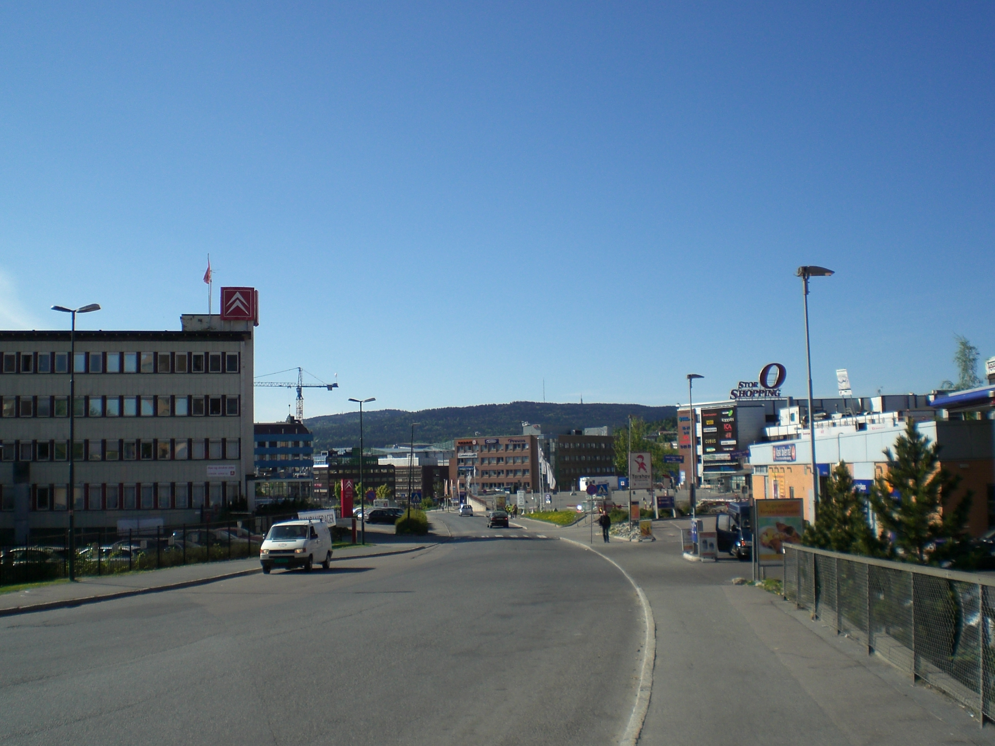 The Storo-area of northern Oslo, Norway